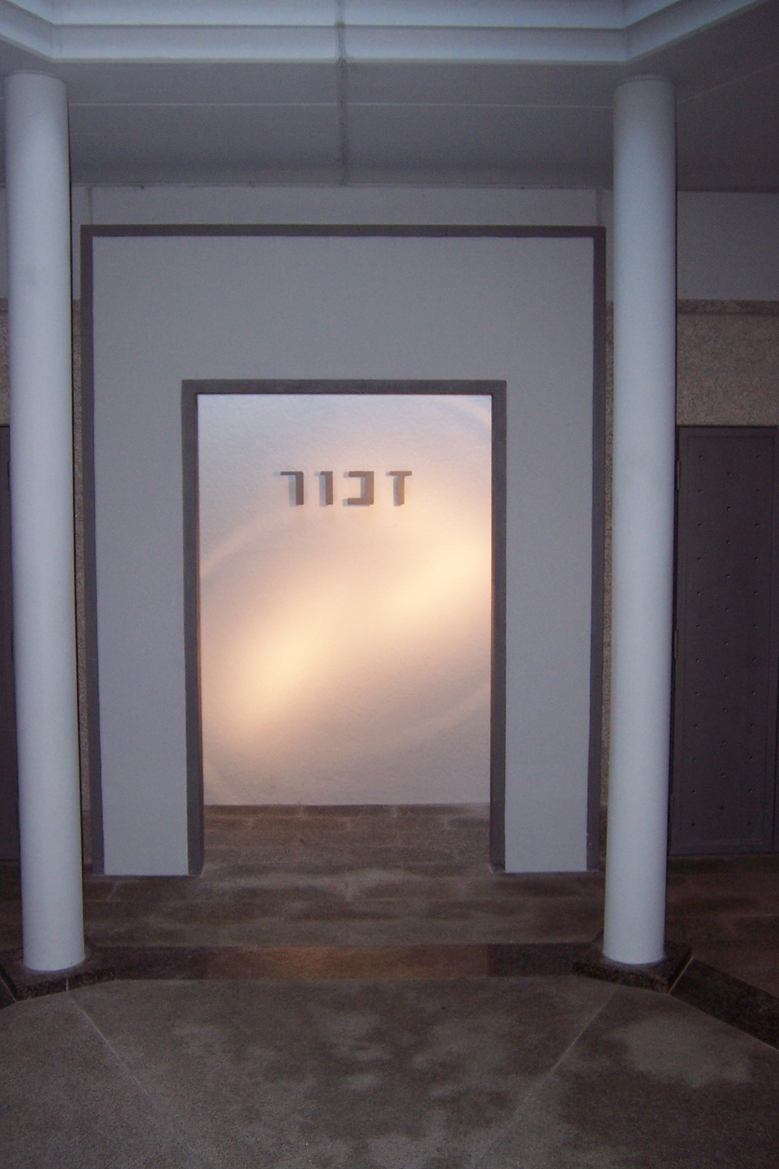 Flossenbürg Concentration Camp: inside Jewish Memorial